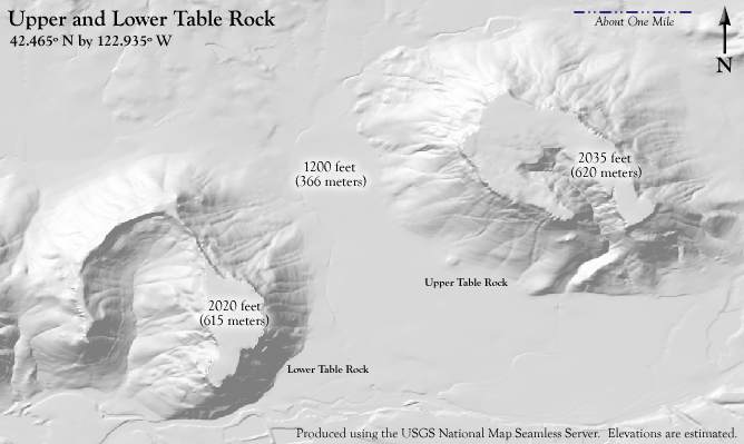 A terrain map of Upper and Lower Table Rock. (Description added by Little Mountain 5)